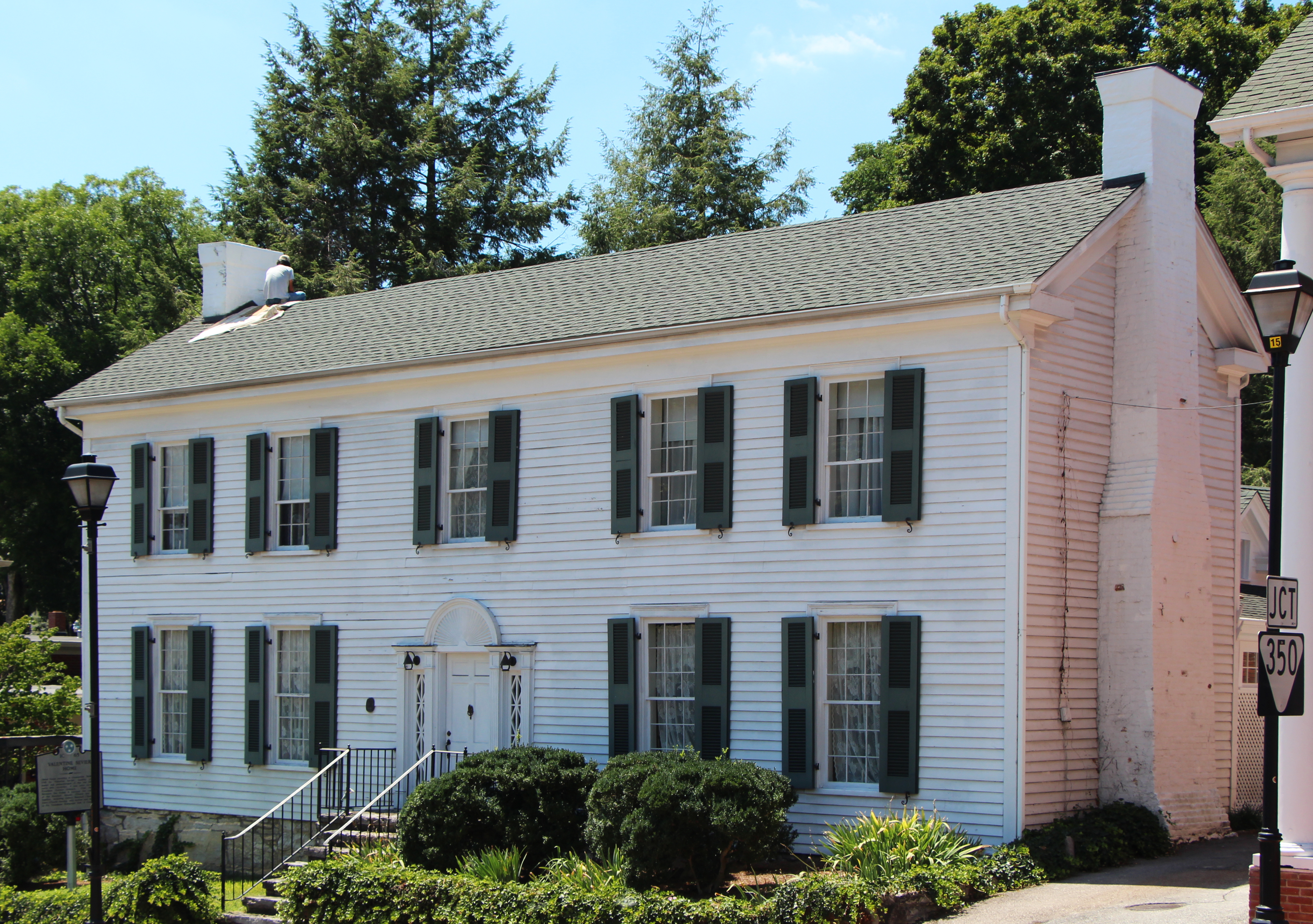 Susong House, Greeneville, TN